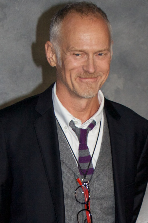 Alan Taylor at the world premiere of Thor: The Dark World.